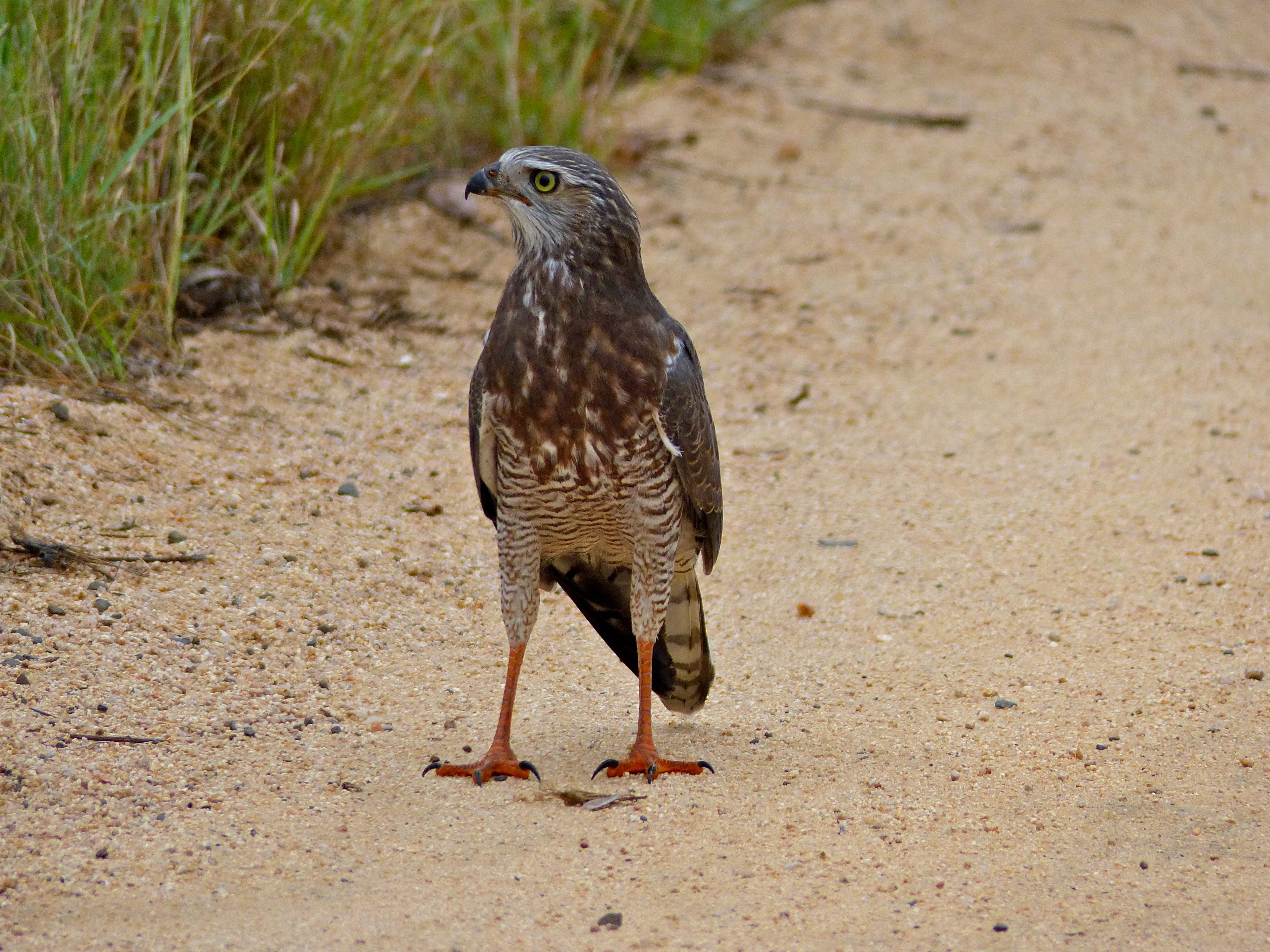 H5 Road South of Skukuza, Kruger NP, SOUTH AFRICA